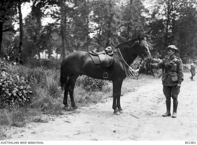 Near side view (left) of one of Brigadier General (Brig Gen) H. E. 'Pompey' Elliott's horses, which had been with him since 1914 held by an unidentified soldier. Gen Elliott commanded the 15th Australian Infantry Brigade. The men of the 15th Brigade credited this charger with the ability to notice and point out to Gen Elliott any man who had not shaved or was not dressed properly. It got this enviable reputation in this way. The charger was a well trained stock horse and the slightest pressure on his shoulder would cause him to stop. Gen Elliott, in galloping along the line, would press his charger's shoulder when he noticed a man improperly dressed and the old horse would stop immediately with his head outstretched towards the man, and his ears back. The man, not noticing the signal to the charger to stop credited him with even a greater intelligence than the horse possessed.